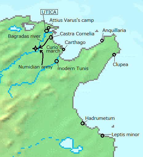 map for the campaign of Gaius Scribonius Curio in Africa in 49 BC.